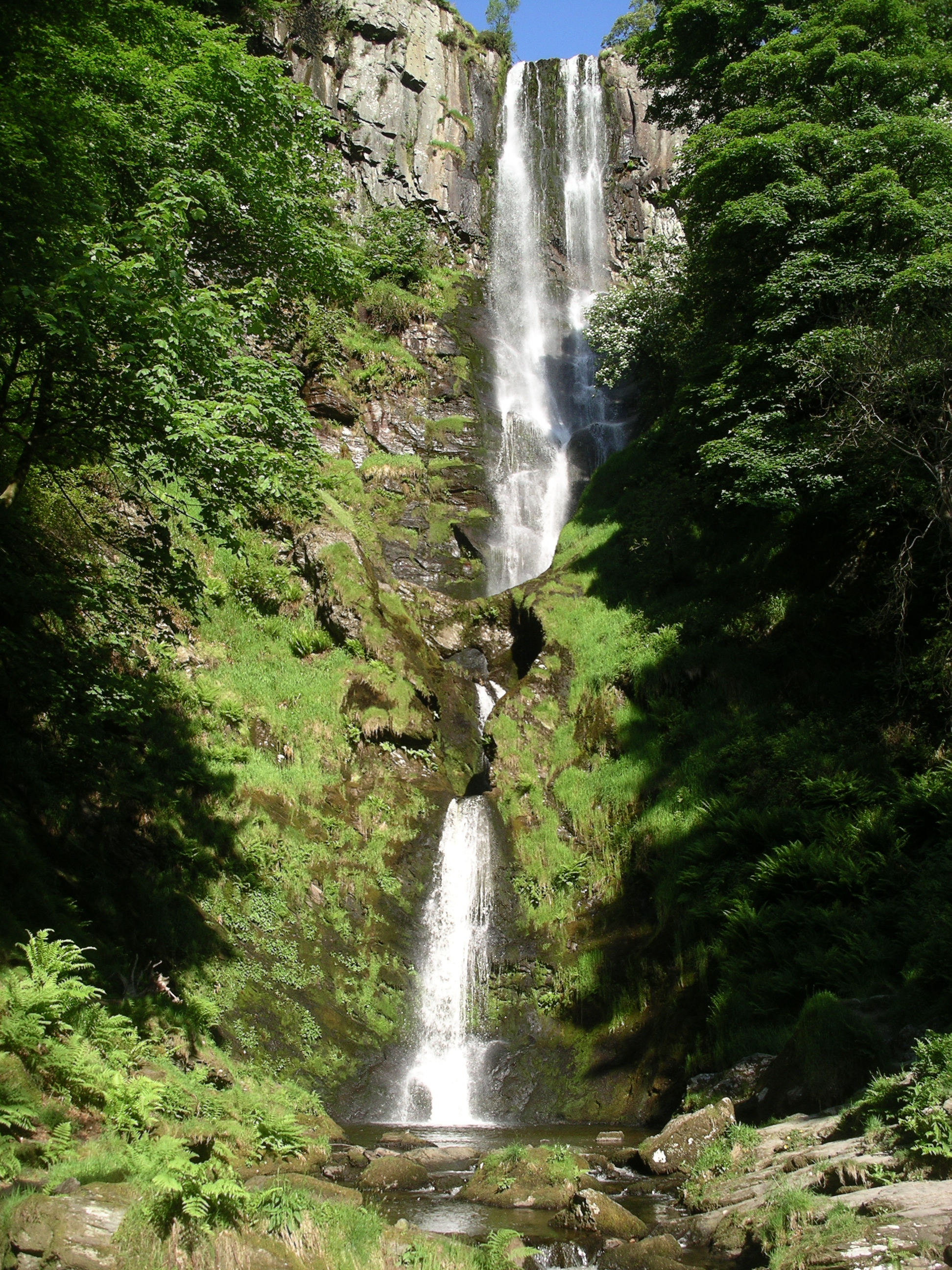 Pistyll Rhaeadr - one of the tallest waterfalls in Wales and England